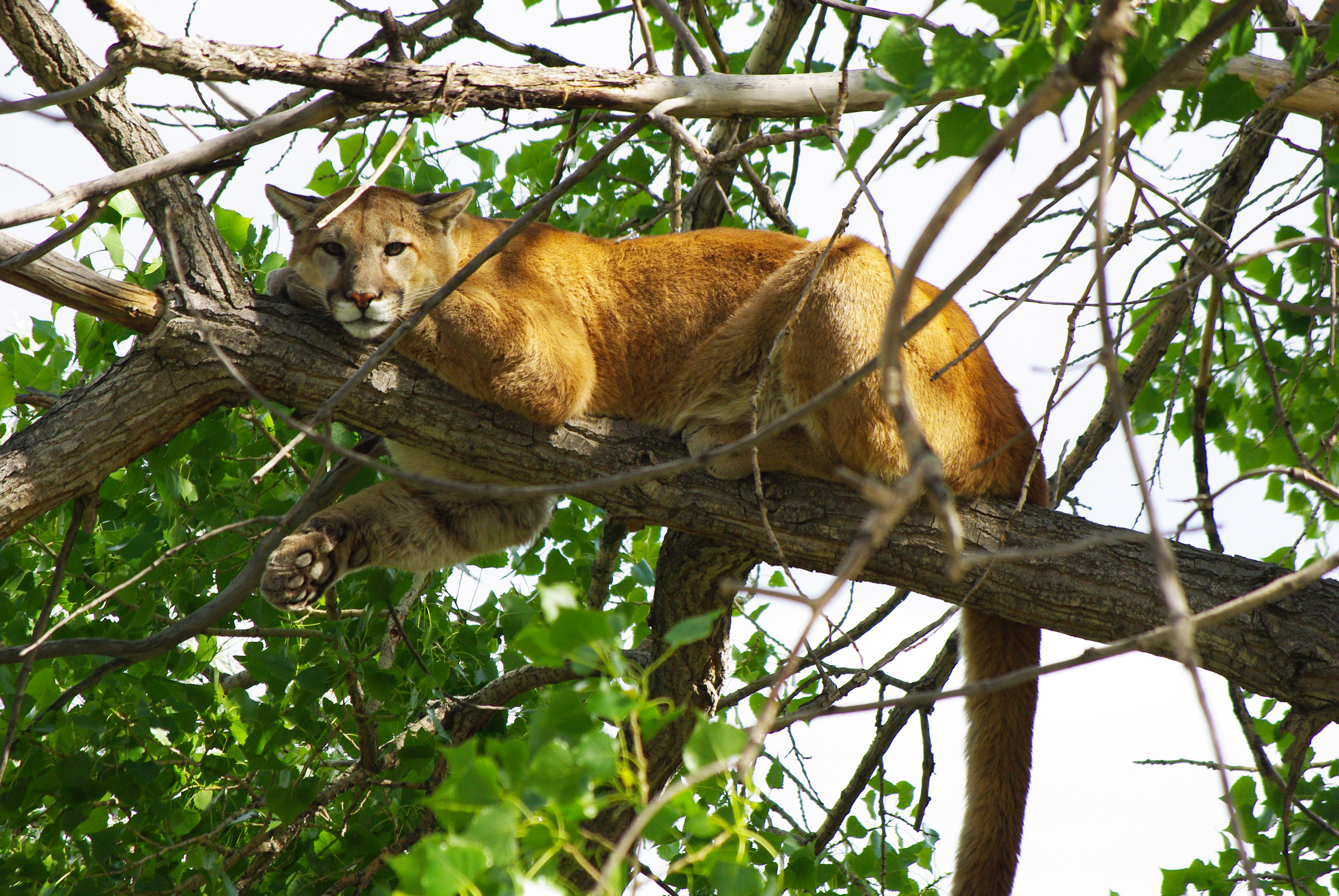 Mountain lion lounging in a cottonwood tree during the heat of the day. Location: Rooney Road, south of Golden, CO. As the crow flies, about 3 miles from the Mountain-Prairie Regional Office. Credit: Justin Shoemaker Photo Contest Entry #63